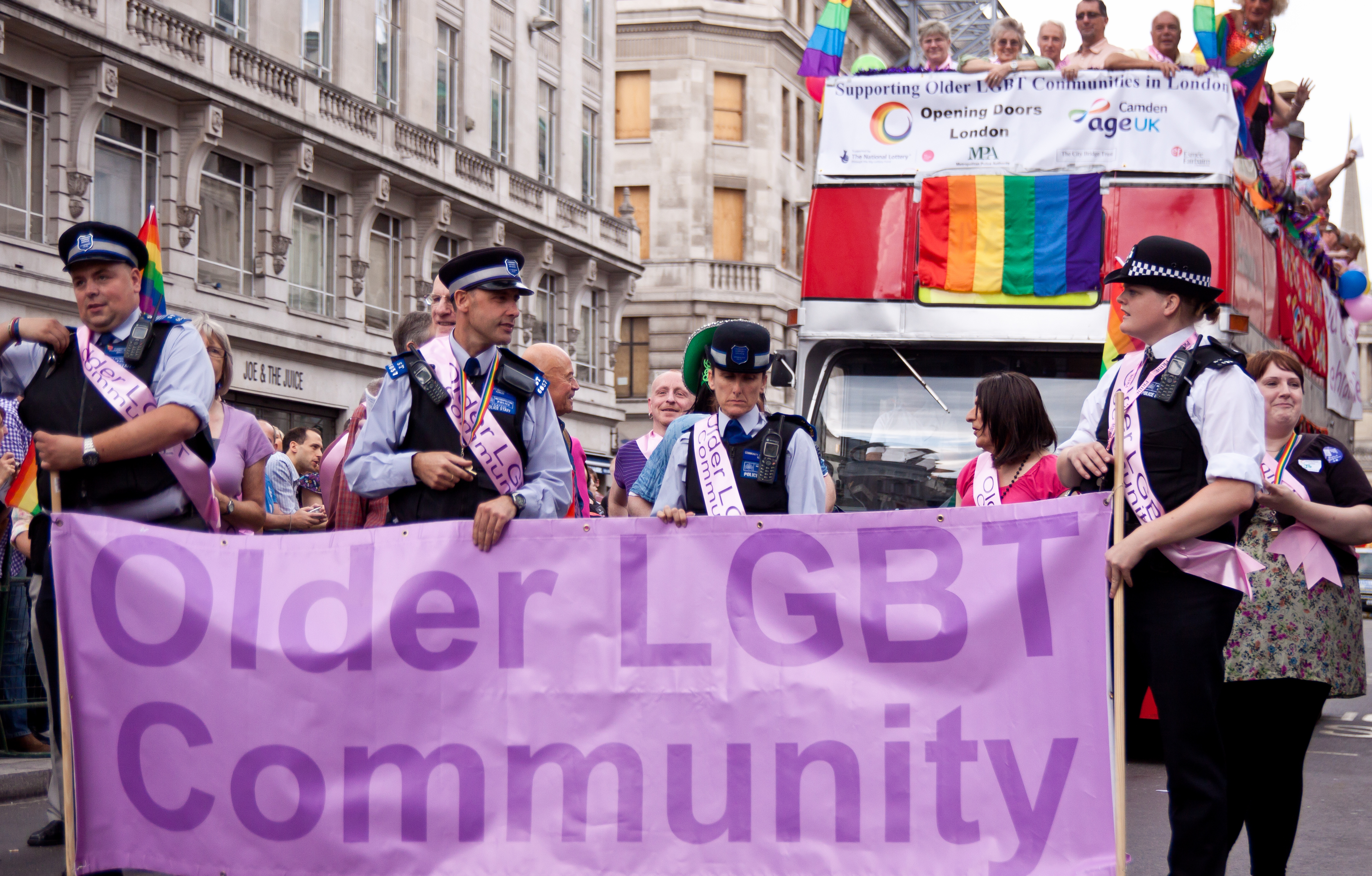 Older LGBT Community